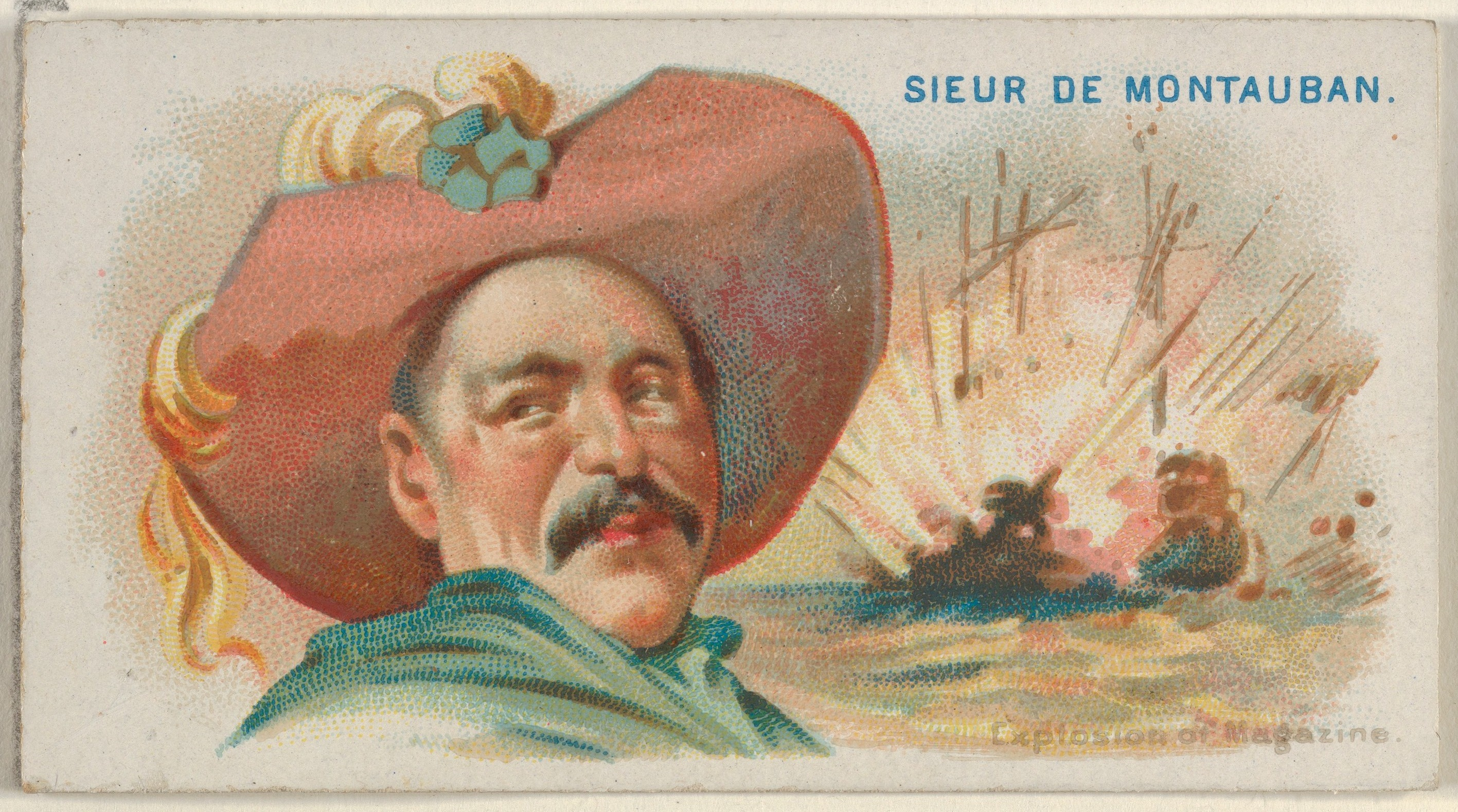 Print; Prints